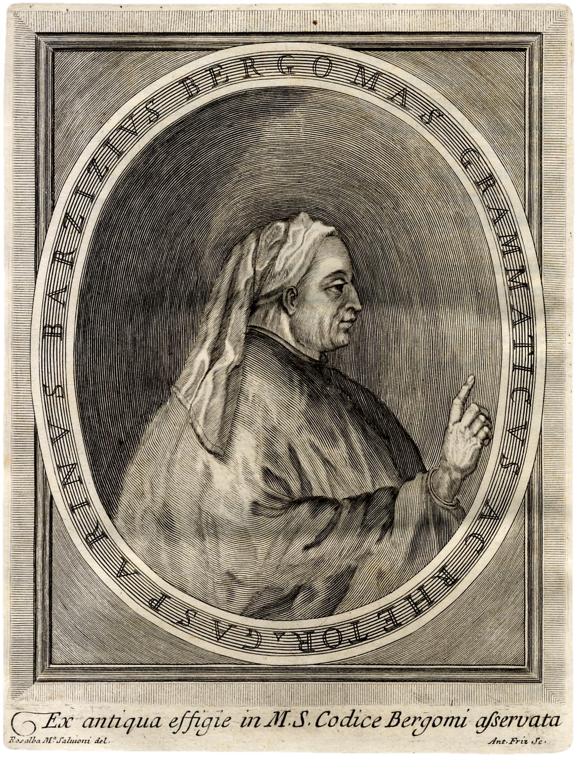 Portrait of Gasparino Barzizza (Gasparinus de Bergamo, 1359-1431), Italian humanist scholar.